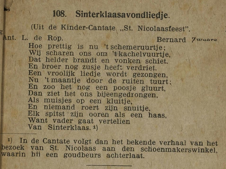 Song sheet with Saint Nicholas-song: 'Sinterklaasavondliedje' (lyric: A.L. de Rop; music: B. Zweers). Around 1900. First lines of the songtext: 'Hoe prettig is nu 't schemeruurtje / Wij scharen ons om 't kachelvuurtje'. Part of: De Kinder-Cantate St. Nicolaasfeest. Source: The Memory of The Netherlands (geheugenvannederland.nl).